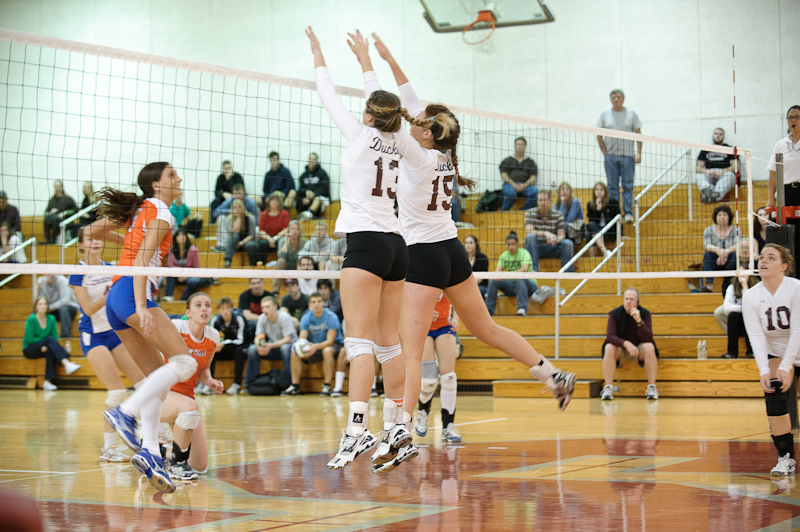 The Stevens Institute of Technology (Hoboken, NJ) Women's Volleyball team in action